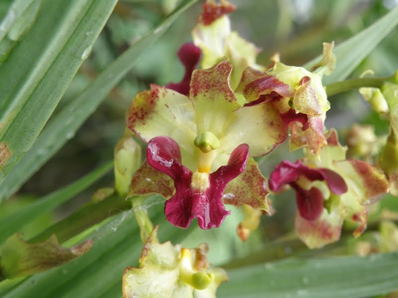 Cyrtopodium witeckii